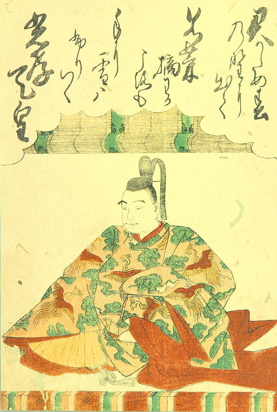 Emperor Kōkō - "Hyaku-nin Isshu" (One Hundred Poems by one Hundred Poets), by Shunsho Katsukawa (1726-1792). Woodblock print depicting Emperor Kōkō. Poem: "I walk on a field in the spring because of you. While I am gathering the young spring edible plants, the snow is falling on my kimono sleeves".